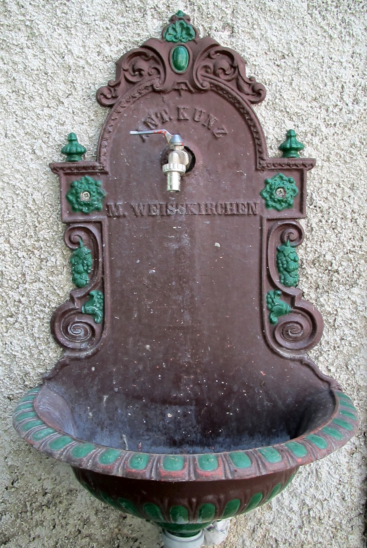 Antique sink at the cemetery in Zavratec, Municipality of Idrija, Slovenia, manufactured by Antonín Kunz (1859–1910) in Hranice na Moravě (Germ. Mährisch Weißkirchen).